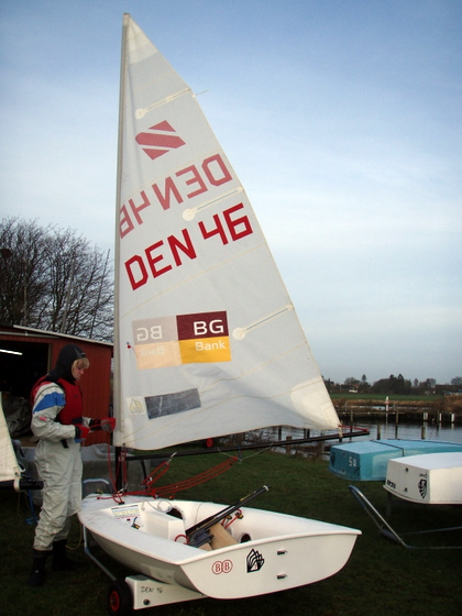 Zoom 8. Picture taken by Liv Juhl Jacobsen, January 2007 at Ydernæs, Denmark.